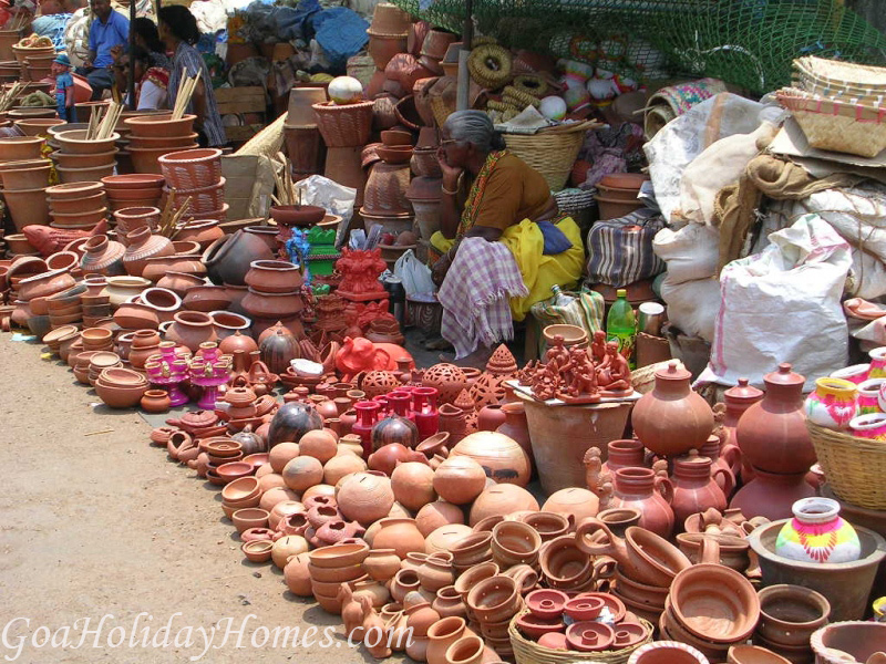 Cearmics on sale at the Mapusa Friday Market in Goa